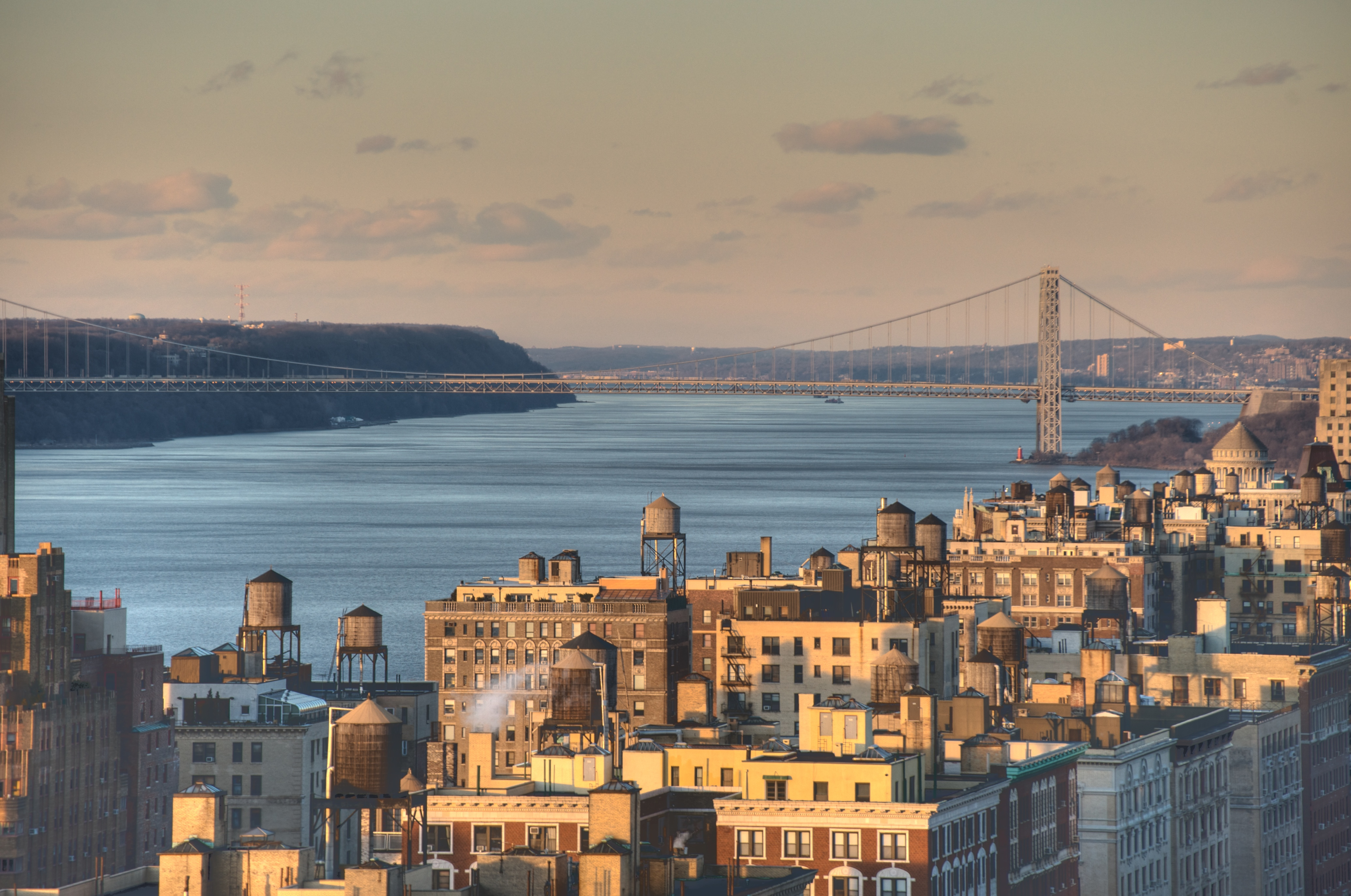 I went up to the roof of my apartment building this afternoon, primarily to get another sunset shot of the south-facing view. But I was about 20 minutes early, so I decided to take advantage of the time by facing north, and getting a shot of the afternoon sun on the apartment buildings along the Hudson River, on Manhattan's Upper West Side. The bridge dominates most of the scene, of course, and everything else looks ... well, just cold. By way of comparison, here is the same shot taken in July 2009, a little after sunset. This particular shot was a 7-image HDR composite. I had enough sense to use a tripod, but the wind was gusting so hard that I wasn't at all sure whether I'd be able to get even one crisp image, let alone seven that could be superimposed on each other for the HDR tonal mapping effect. But I think it came out reasonably well...